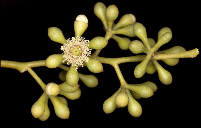 Flower buds and flowers of Eucalyptus sparsa on the Warlpapuka to Giles Road, 9.5 km north of the Blackstone to Mulga Park Road